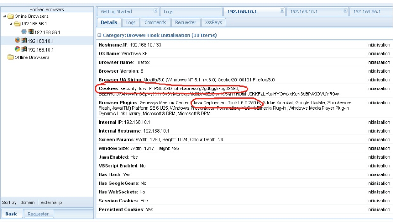 beef method